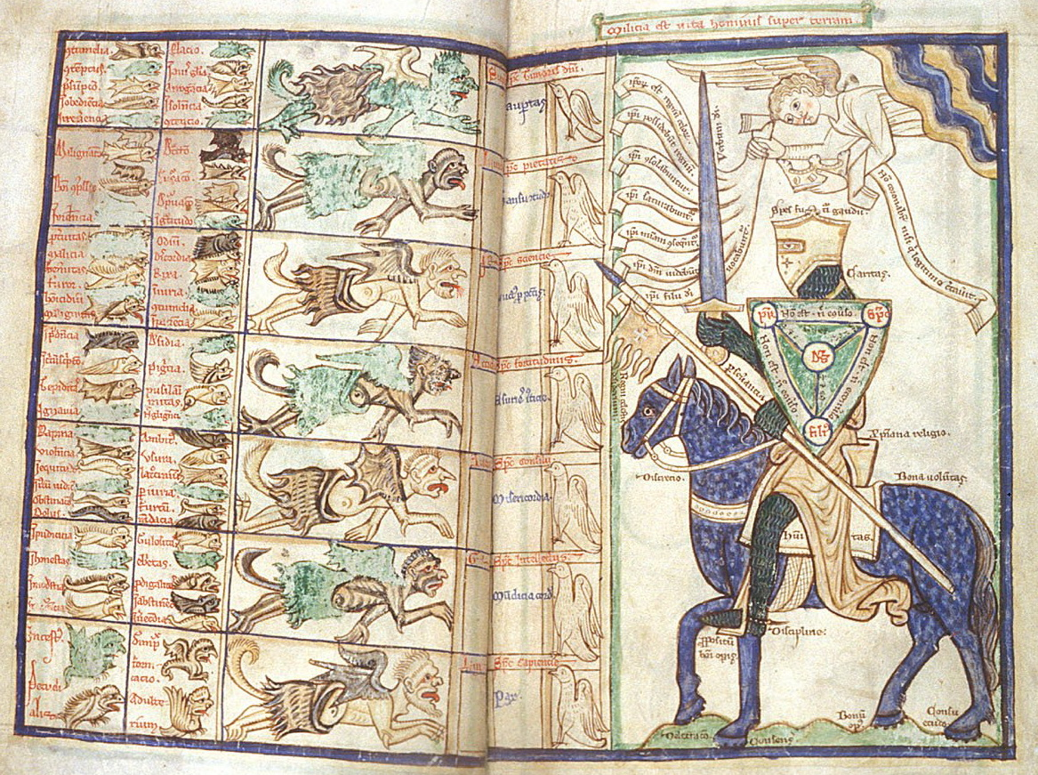 Harleian ms. 3244, folios 27-28, showing an allegorical knight preparing to battle the seven deadly sins with the "Scutum Fidei" diagram of the Trinity as his shield. This is part of a ca. 1255-1265 illustration to the Summa Vitiorum or "Treatise on the Vices" by William Peraldus. For detailed discussion of the manuscript, see the article "An Illustrated Fragment of Peraldus's Summa of Vice: Harleian MS 3244" by Michael Evans in Journal of the Warburg and Courtauld Institutes, vol. 45 (1982), pp. 14-68. "The picture is exceptional for several reasons: there is no comparable representation of the vices; depictions of the miles christianus in emblematic armour are extremely rare before the Reformation; the juxtaposition of the various elements is unprecedented in medieval figurative art; and no other illustrated MS of Peraldus is recorded." (Evans p. 14) For the device on the knight's shield, see image description page File:Trinity knight shield.jpg.